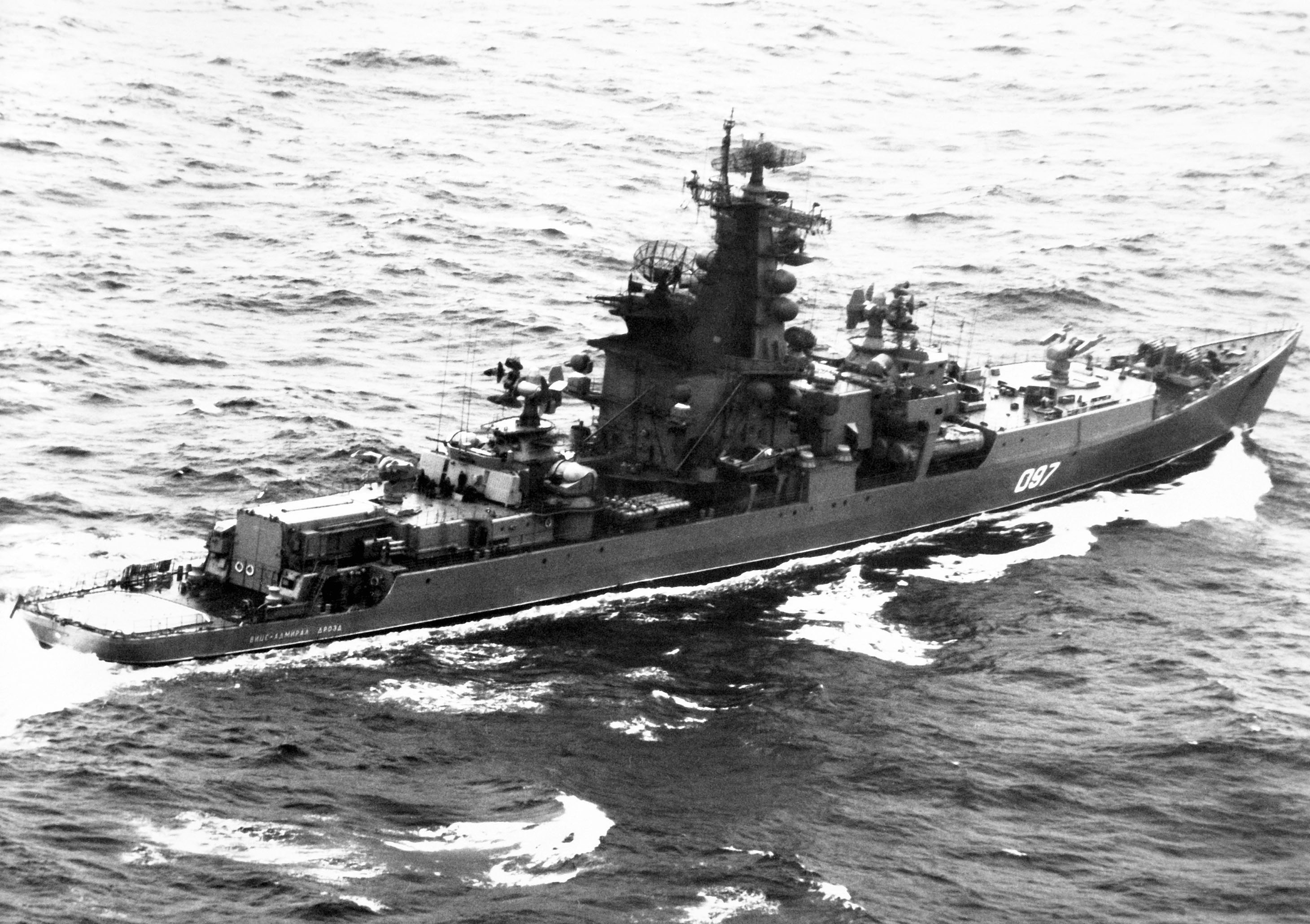 An elevated starboard quarter view of a Soviet Kresta I class guided missile cruiser VICE ADMIRAL DROZD underway.